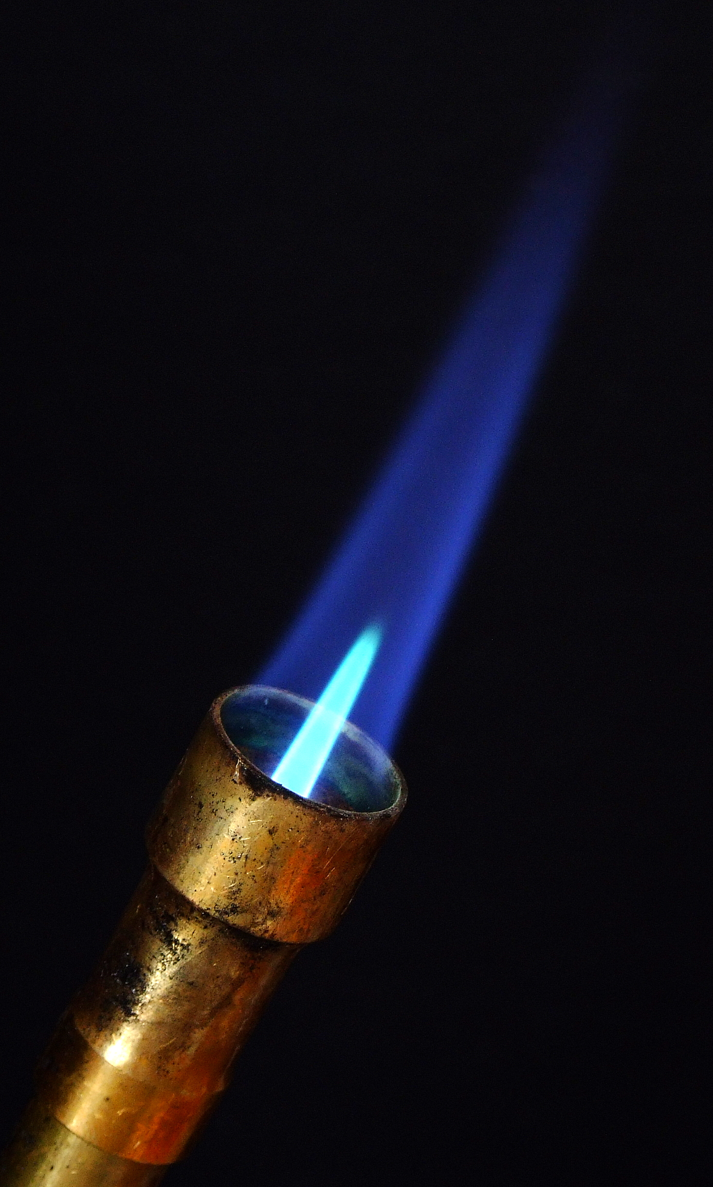 A shot of the blow torch I use to light our fire.